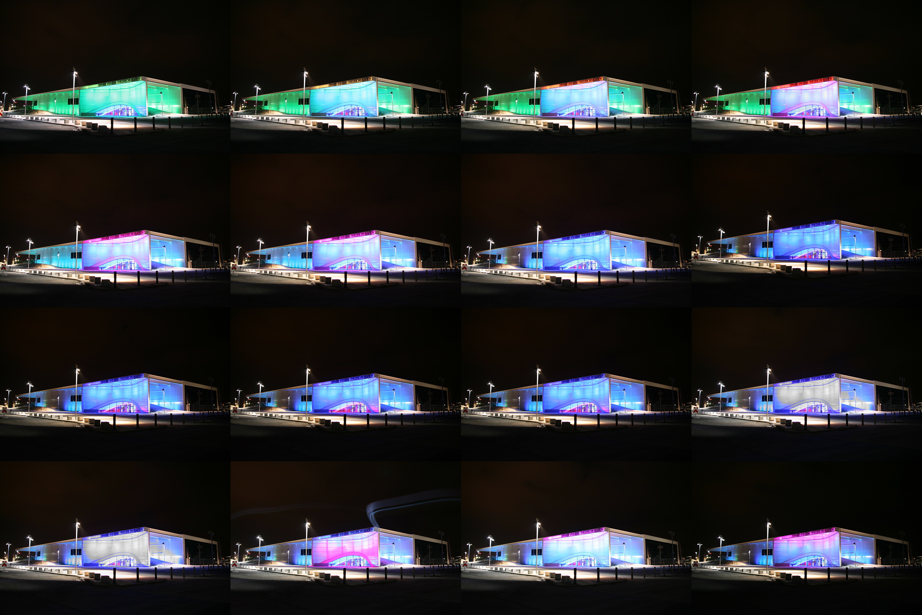 Dornier-Museum